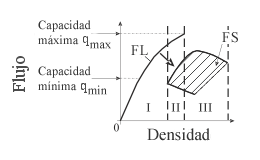 Traffic capacity